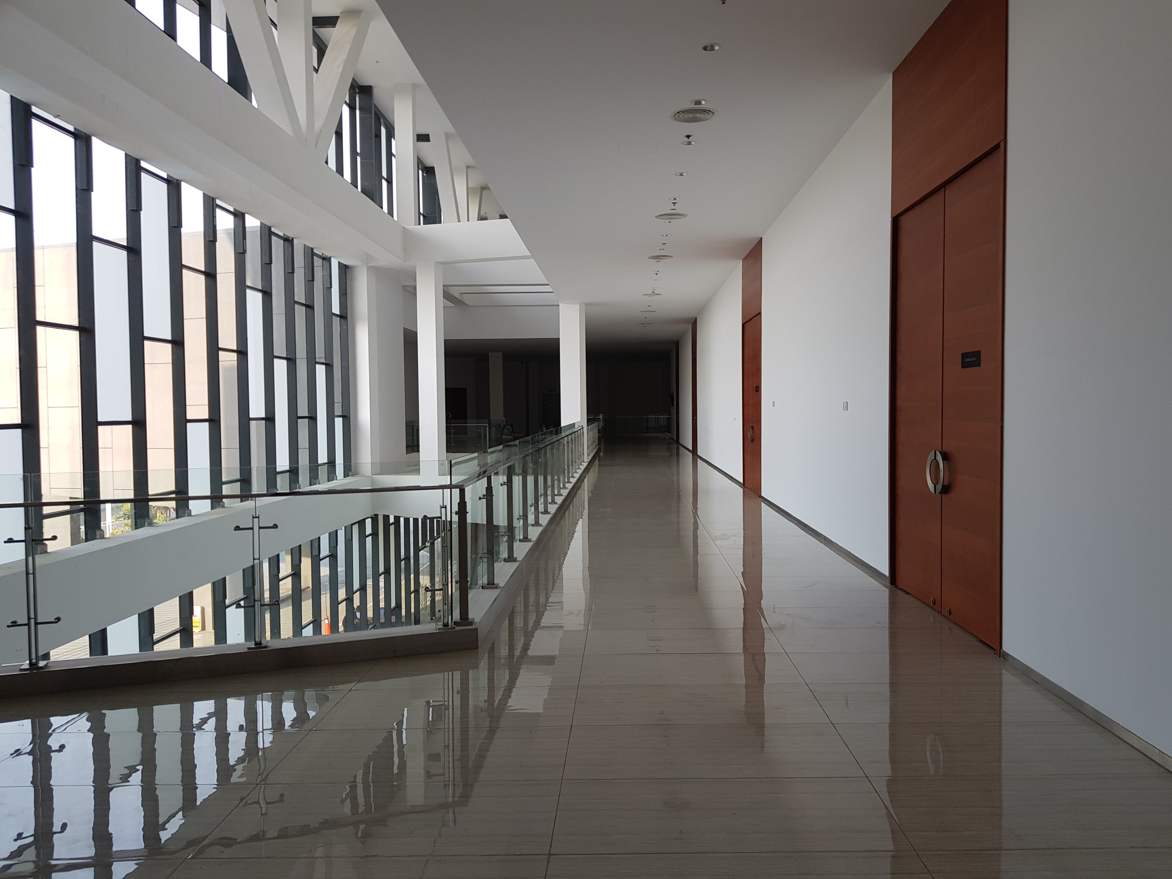 2nd floor of Mandalay Convention Centre